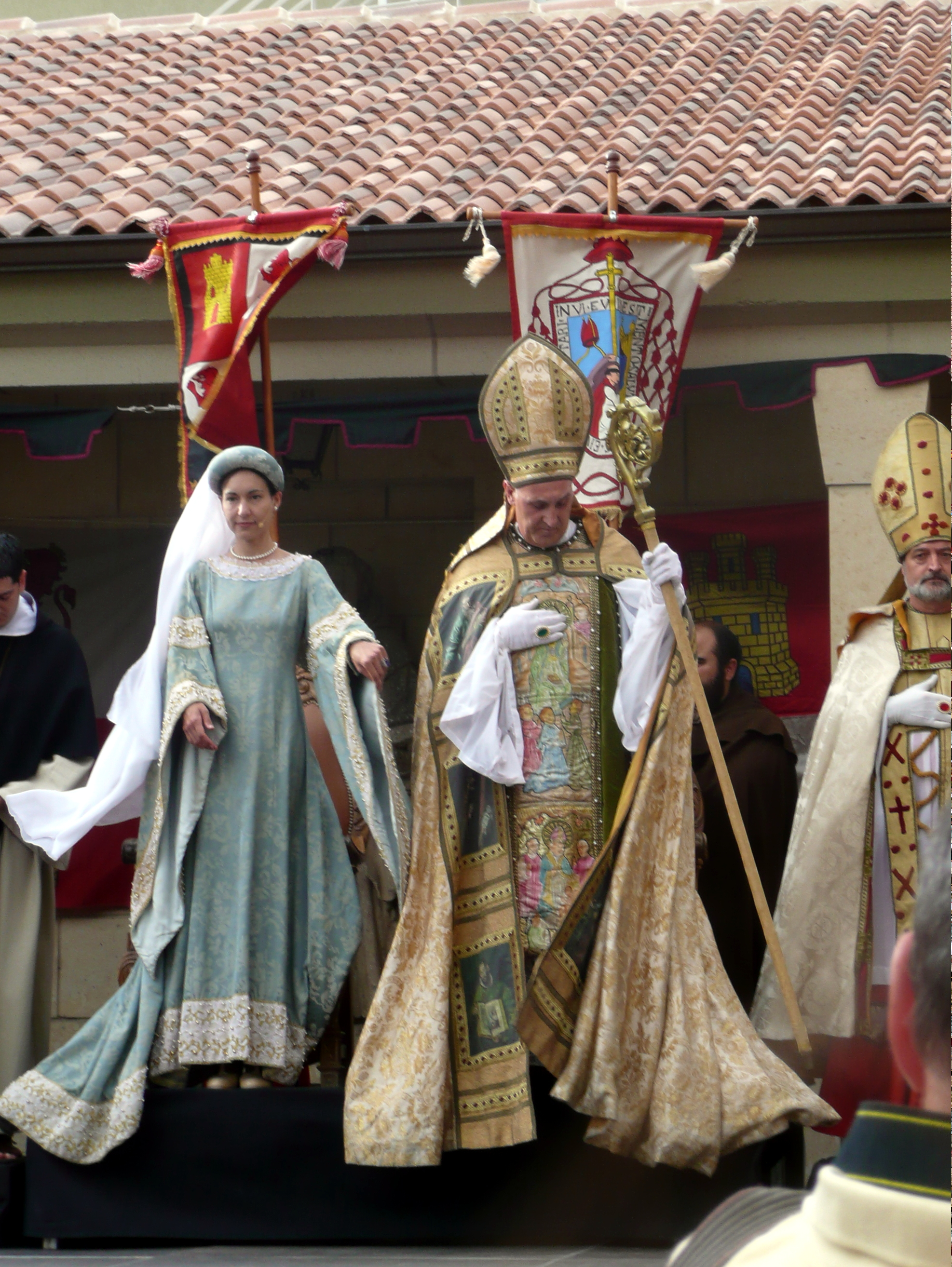 A scene of the recreation of the Concilio de Aranda